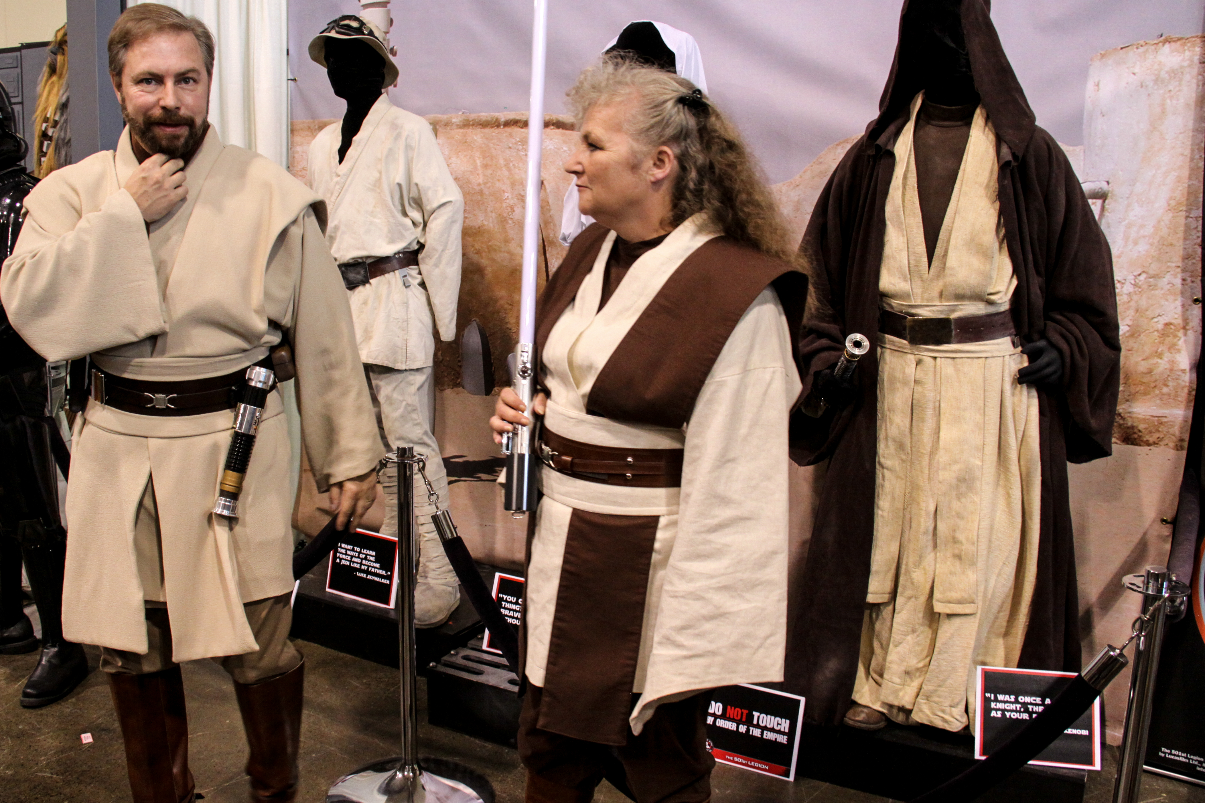 Cosplay at Fan Expo Canada in Toronto in 2013.